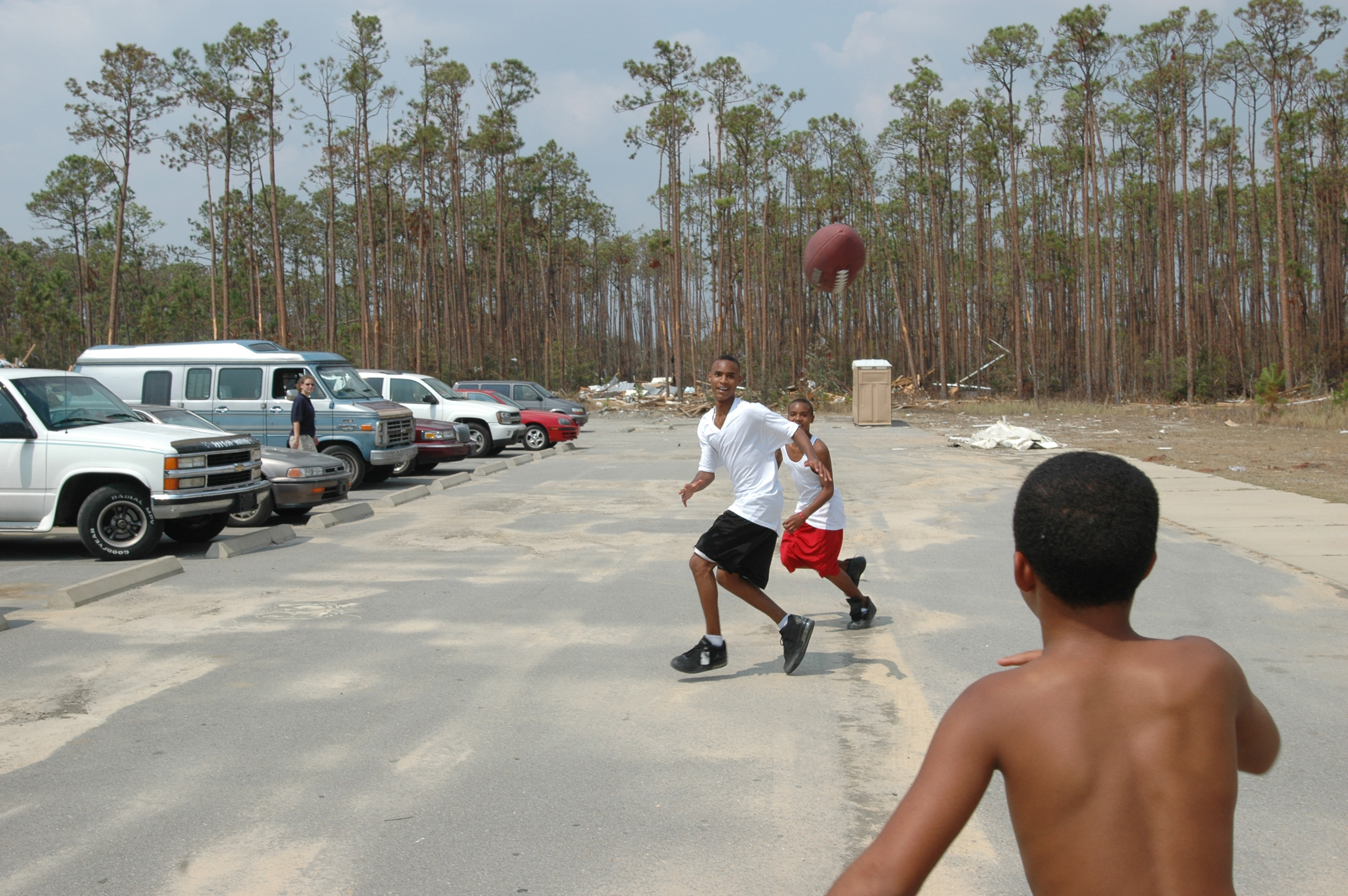 Pass Christian, Miss., September 19, 2005 -- Local kids get in a game of football as their mother gets assistance at the Pass Christian Disaster Recovery Center (DRC). DRC's are set up to help guide residents through the FEMA recovery process. FEMA/Mark Wolfe